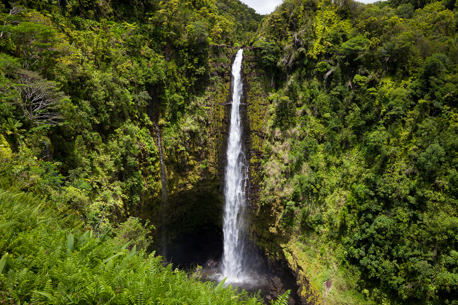 Hawaii The big Island Akaka Falls